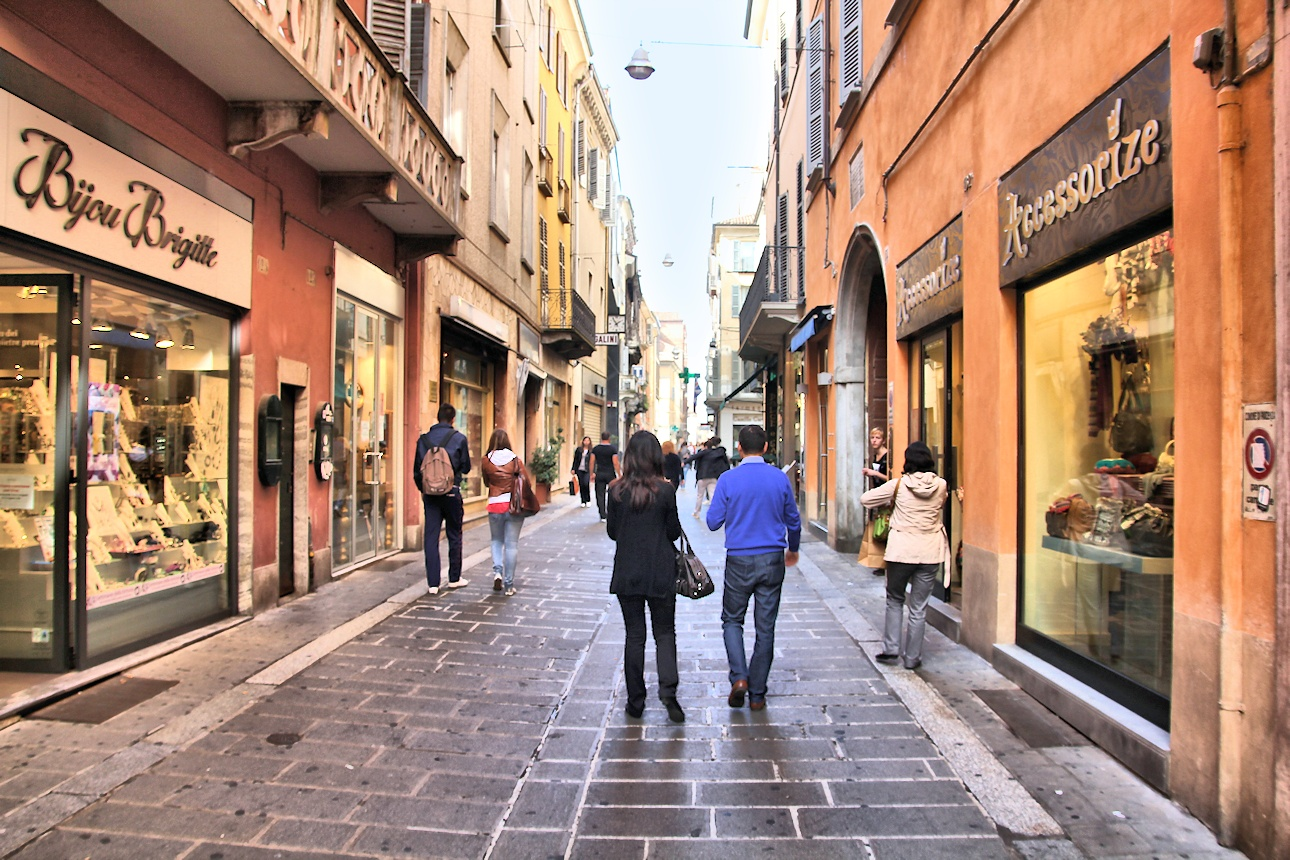 Via XX Settembre shopping street in Piacenza, Italy.